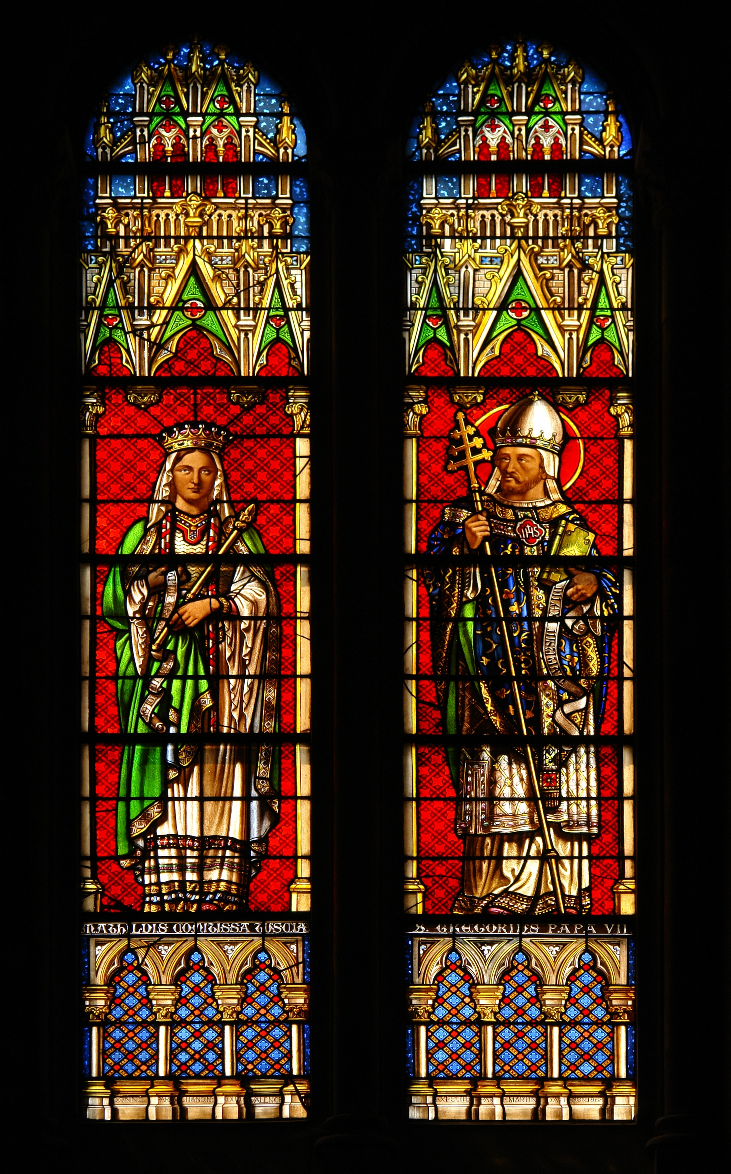 Stained glass windows at Notre-Dame, Geneva, Switzerland.